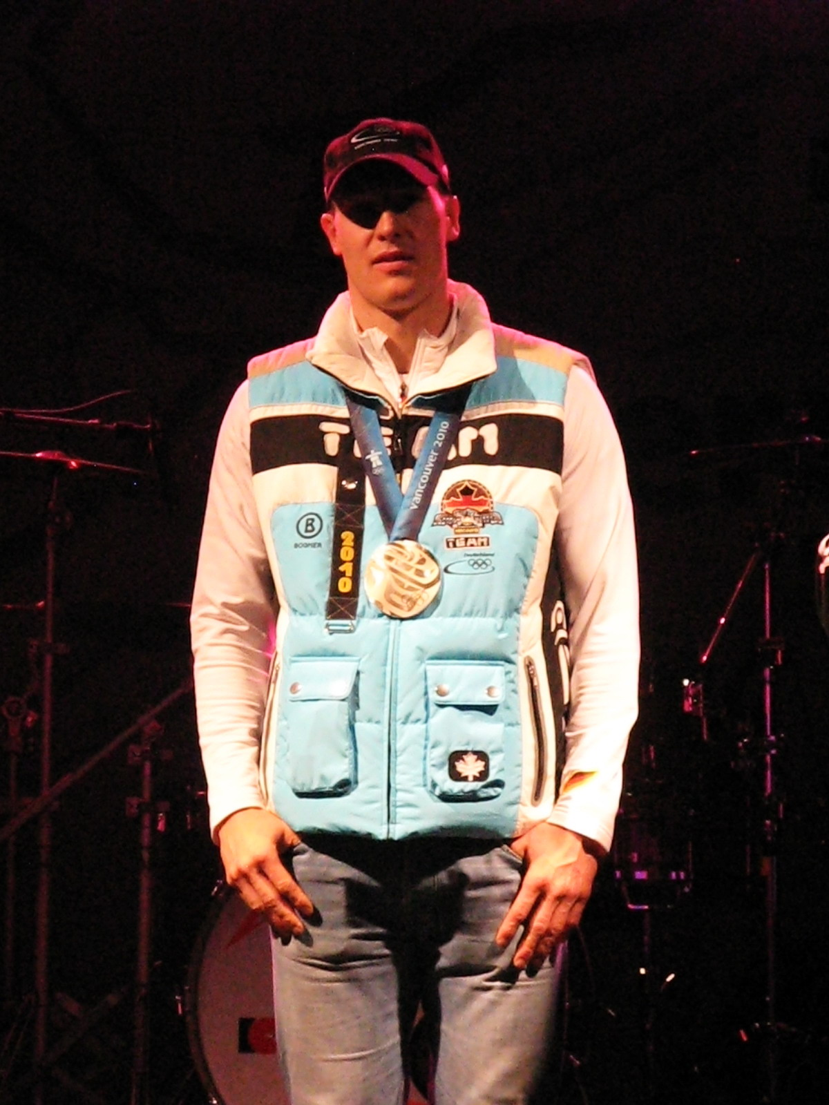 David Möller, Silver Medalist for Luge Men's Singles at the 2010 Olympic Games